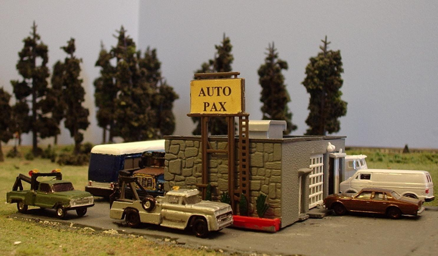 Photo by William J. Grimes Auto Pax, Inc. Auto Pax means Automotive Peace, because a car should run peacefully.